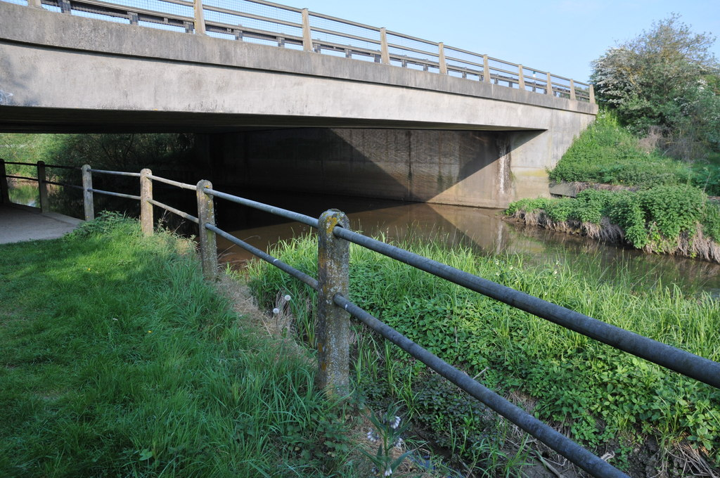 The Thames passing under the A419